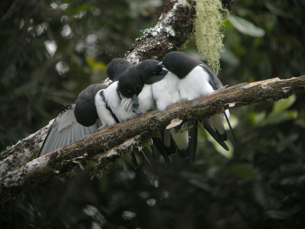 Great Woodswallow (Artamus maximus) group preening